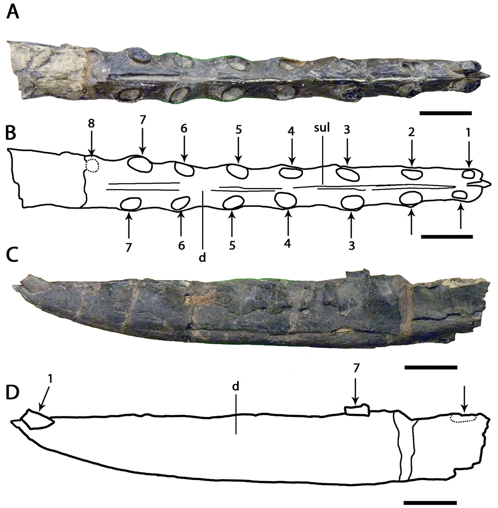 Targaryendraco wiedenrothi (formerly ‘Ornithocheirus’), holotype SMNS 56628 (Hauterivian, Engelbostel clay pit, Hannover), anterior part of the mandibular symphysis. A dorsal view B respective line drawing C left lateral view D respective line drawing. Abbreviations: d – dentary, sul – sulcus. Arrows and numbers indicate alveoli or teeth and their respective position. Scale bar = 10 mm.